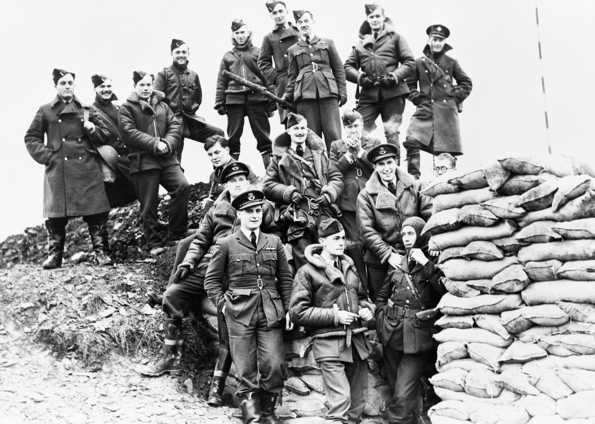 Royal Air Force- France, 1939-1940. Pilots of No. 73 Squadron RAF grouped round the Duty Office dugout at Rouvres. Standing in the dugout entrance, wearing a balaclava, is Pilot Officer E J "Cobber" Kain, later to achieve distinction as the first Allied 'ace' of the War. The officers grouped around him are (clockwise from Kain): Flying Officer R E Lovett Pilot Officer P V Ayerst Pilot Officer J G "Tubs" Perry Flying Officer N "Fanny" Orton Pilot Officers G F Brotchie A B "Tommy" Tucker "Smooth" Holliday. Holliday's left can be seen the head of a Greek journalist who was visiting the Squadron Standing in a line on the roof are (left to right) : Sergeants R M Perry L J W "Humph" Humphris B Speake D A Sewell G H Phillips J Winn Pilot Officer E "Henry" Hall (Squadron Adjutant) Sergeants C N S Campbell S G Stuckey. Sgts Perry and Winn became the Squadron's first casualties when they were both shot down and killed north-east of Metz on 22 December 1939 by Messerschmitt Bf 109s of III/JG53.